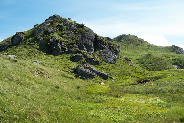 Stob an Eas. The rocky ridge of Stob an Eas viewed from the west